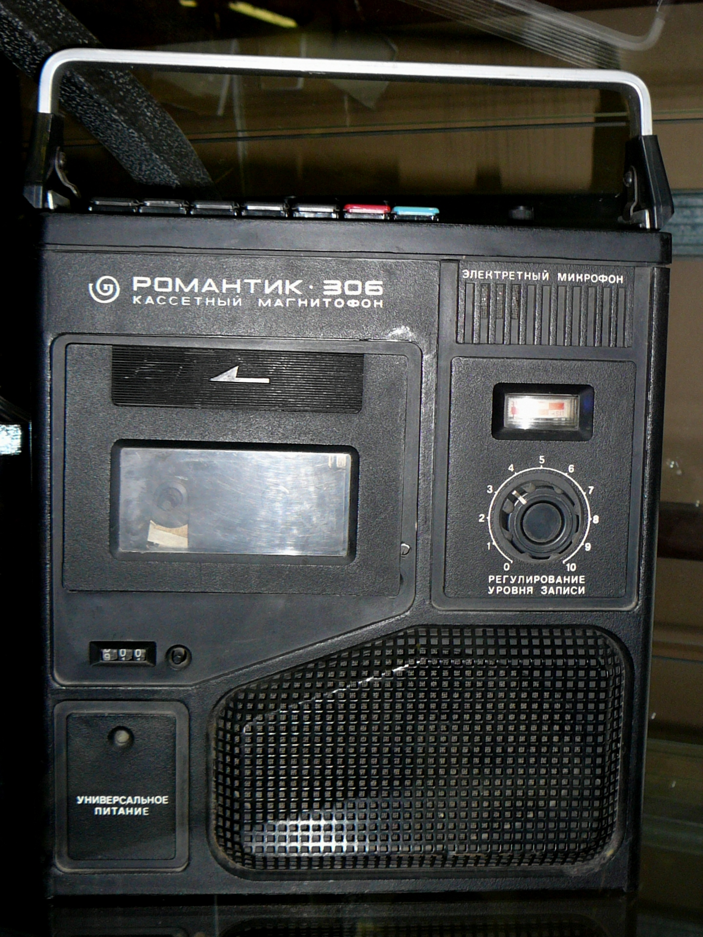 Romantik-306 cassette recorder. G. I. Petrovski plant, USSR, Gorki city, 1979